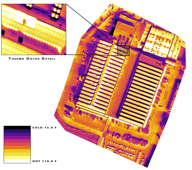 DroneMapper UAS Thermal Imagery processed by DroneMapper. Original imagery RAW TIFF 16bit Single Band Grayscale (FLIR iron palette applied)